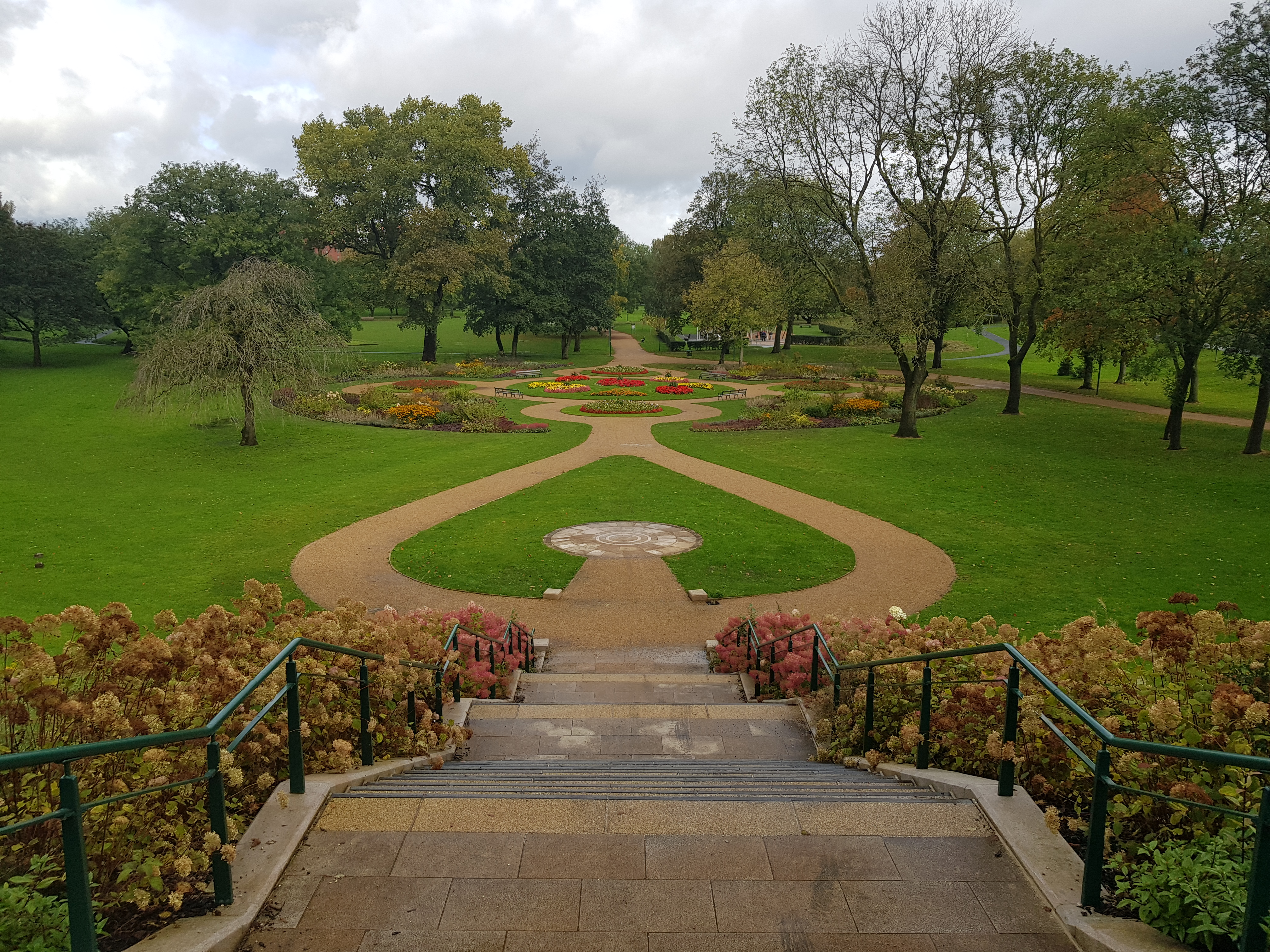 Looking down the steps from behind Sallford Museum and Art Gallery